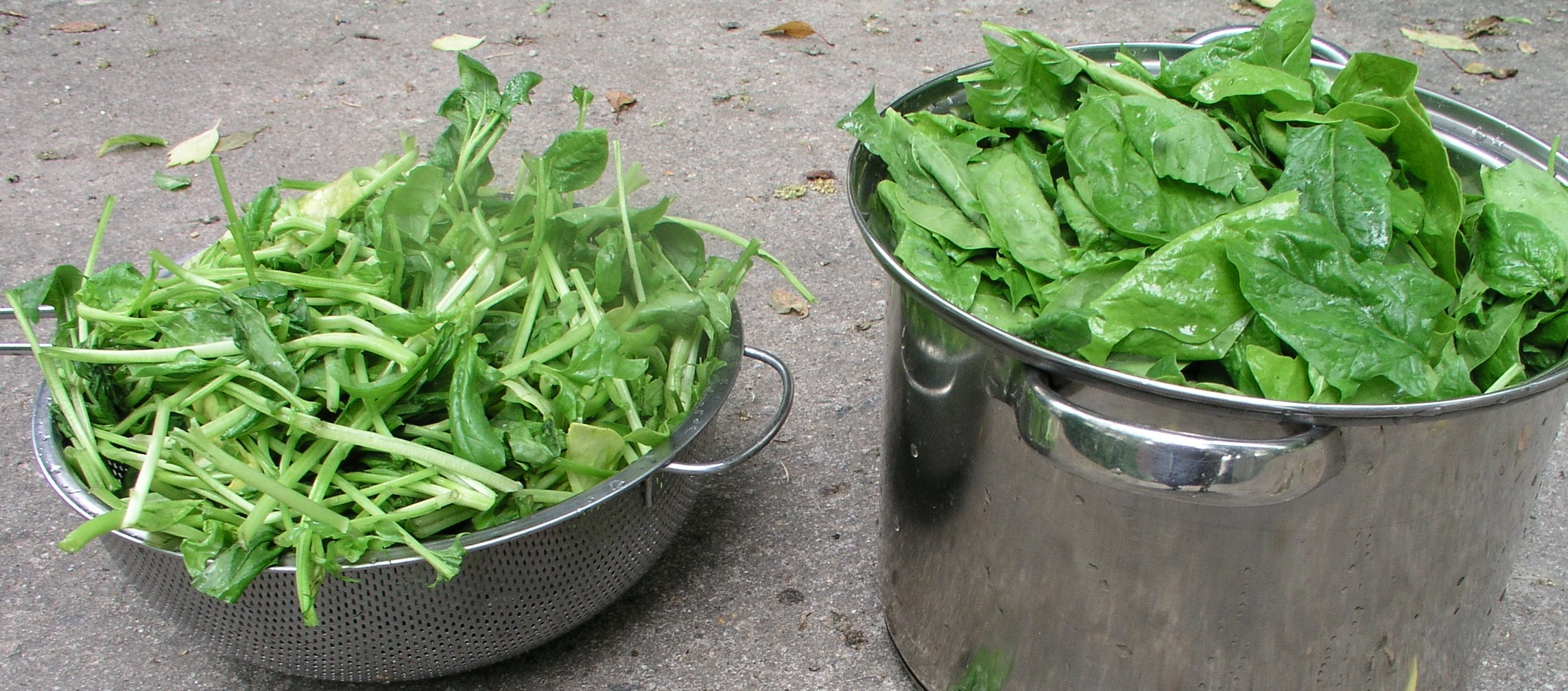 2 kg Spinach: 1 kg of leaves and 1 kg of stems. See Image:spinach_leaves.jpg and Image:spinach_leaves_boiled.jpg